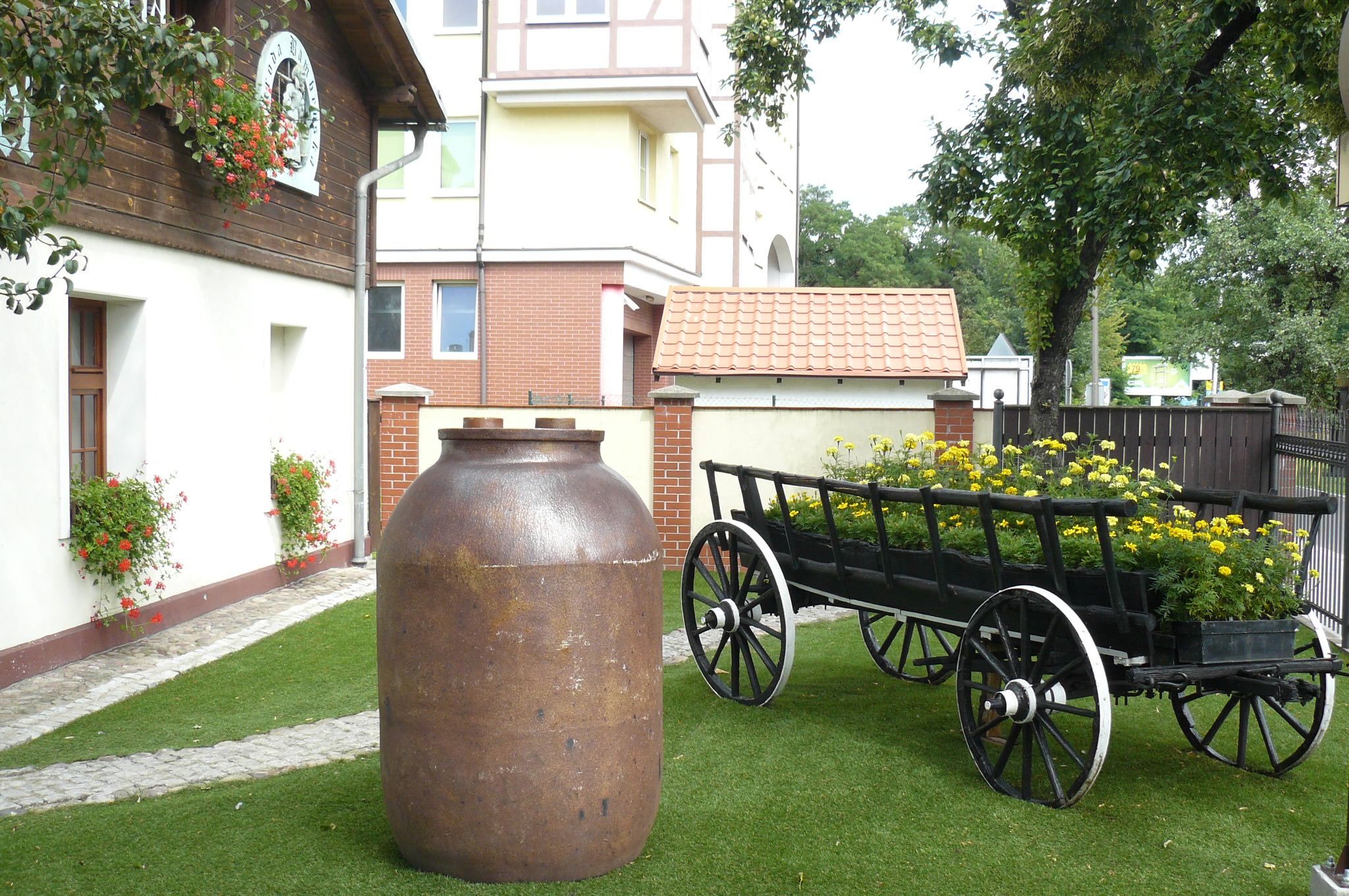 Poznań, Kościelna street. The old rural buildings. Remains of ancient settlements from Bamberg.